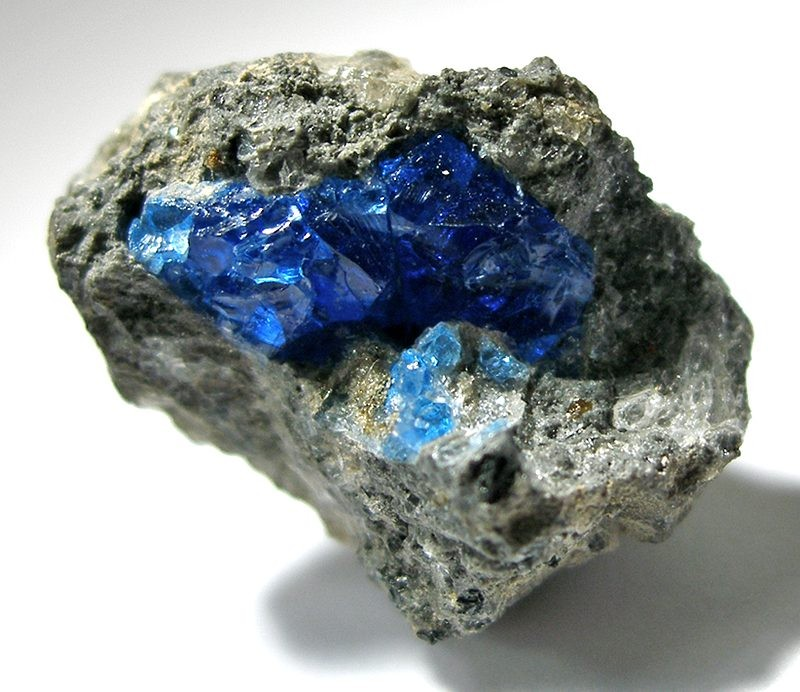 Haüyne Locality: Mayen, Eifel Mts, Rhineland-Palatinate, Germany (Locality at ) Size: 1.1 x 0.9 x 0.8, 0.4 x 0.4 x 0.3 cm. Named in honor of the famed, 19th. Century crystallographer and mineralogist, Abbe Rene Just Hauy, this matrix specimen has glassy and gemmy, vibrant, rich blue "crystals" nestled in a vug. They are crystals, just filling a pocket so there is no crystalline face to see. The loose crystal measures .5 cm across. Hauyne is a rare, sodium, calcium, aluminum, silicate, sulfate occurring in the occasional weird volcanic zone. This is a neat example from the old classic locale from which it is best known.